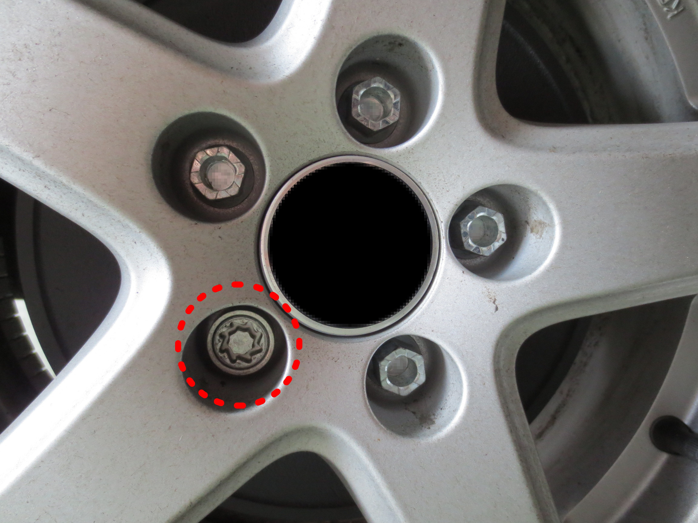 Photo of an alloy wheel with a wheel lock